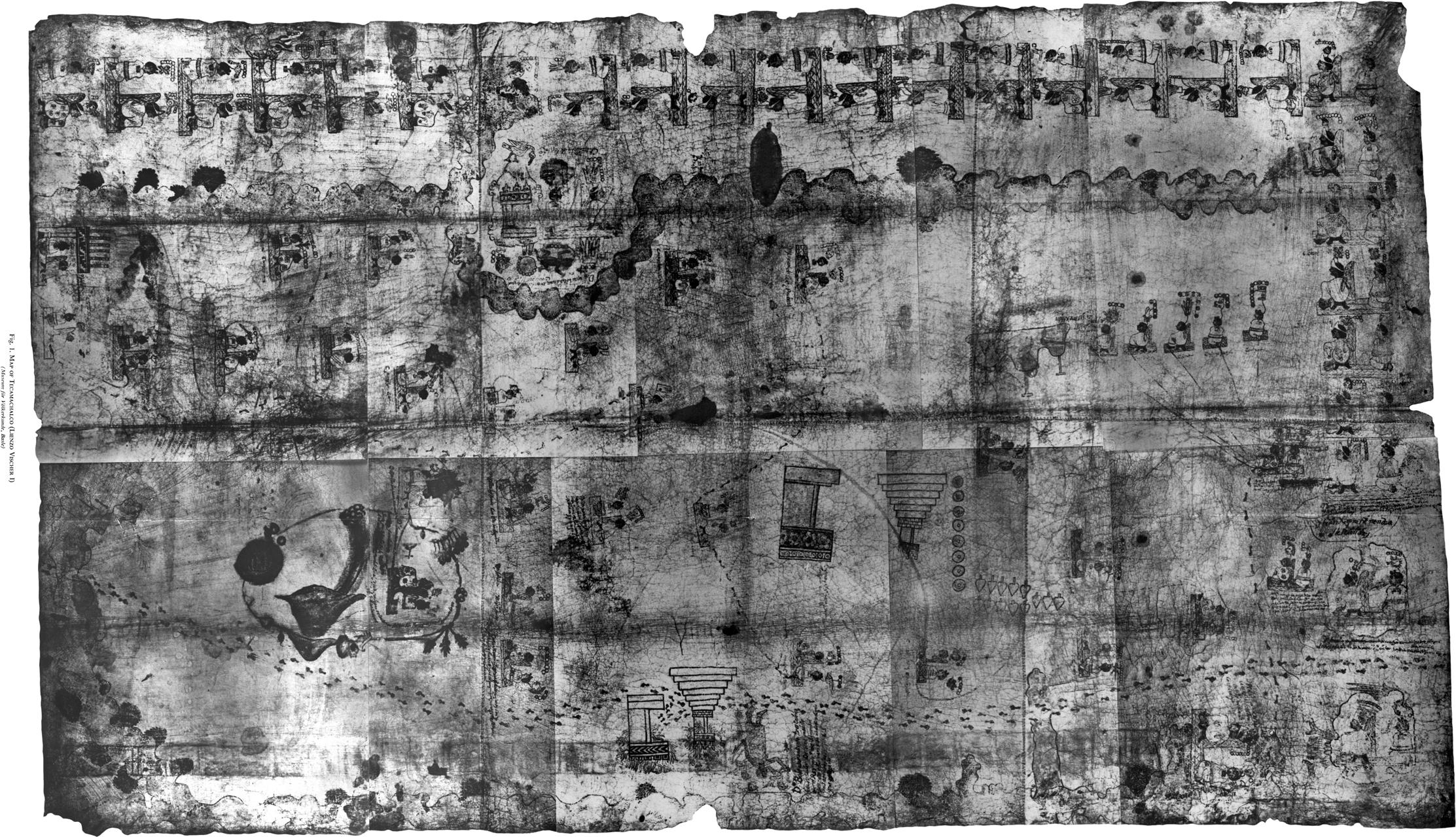 Black and white photo of the Lienzo Vischer I, an indigenous Mexican manuscript.